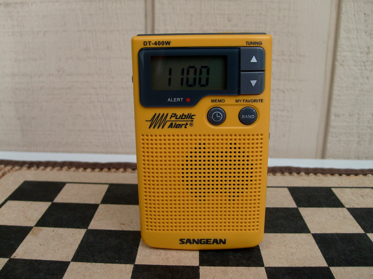 AM/FM Weather Band pocket Receiver